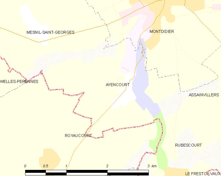 Map of French municipality Ayencourt